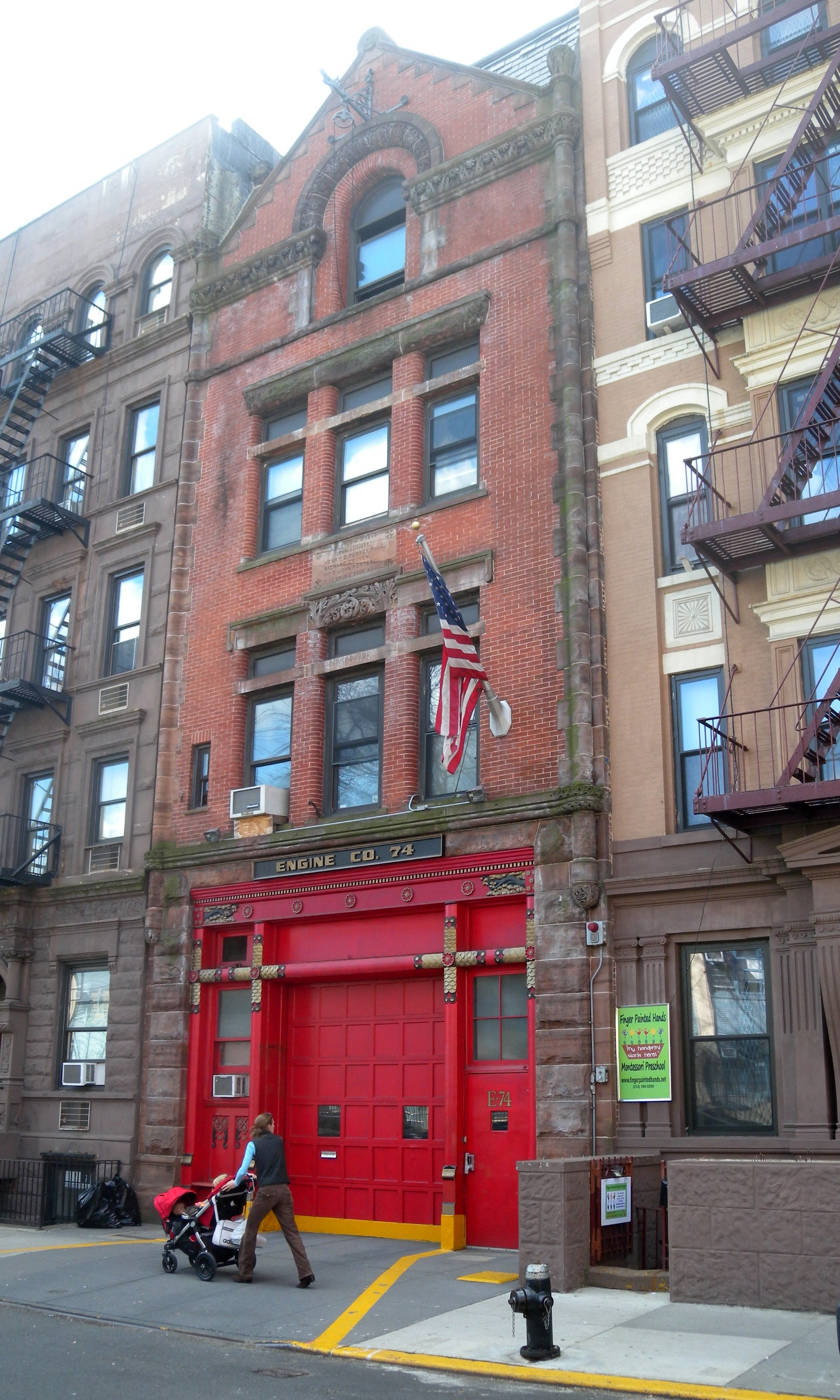 Looking south across 83d Street at Engine 74 firehouse on a sunny day.